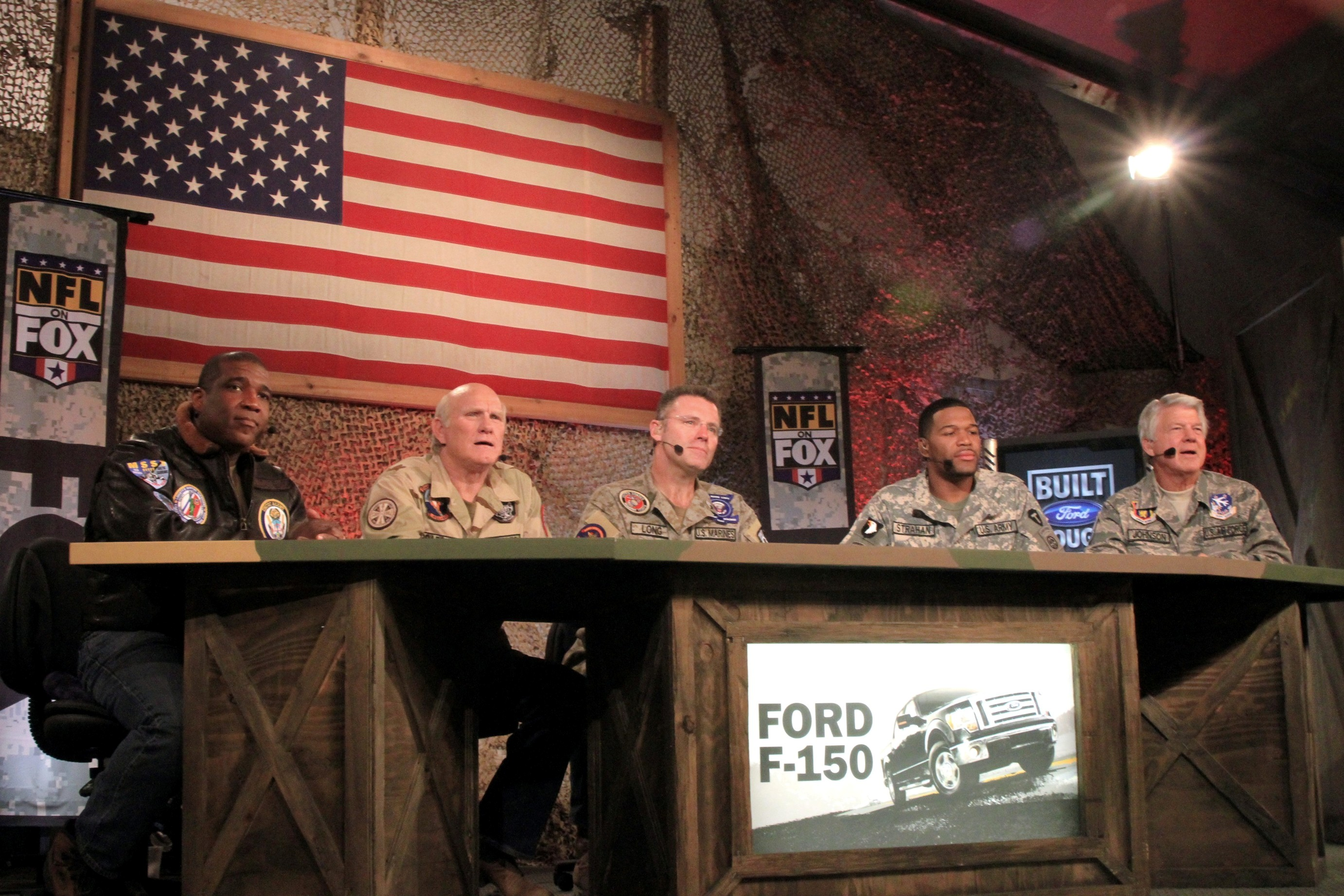 (Left to right) Curt Menefee, Terry Bradshaw, Howie Long, Michael Strahan, and Jimmy Johnson on stage at the Morale, Welfare and Recreation clamshell tent during the taping of the FOX NFL Sunday pregame show, Nov. 8.